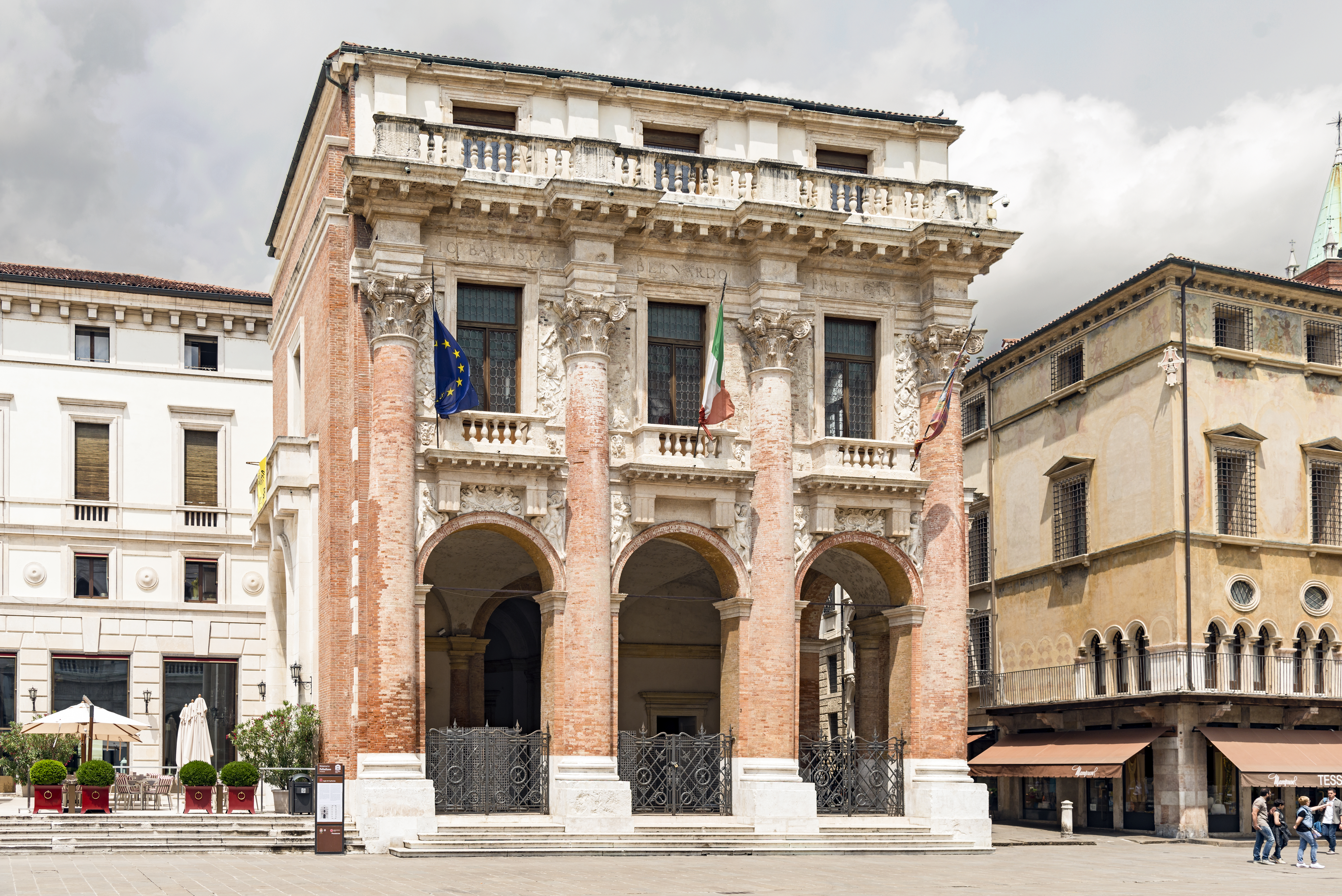 Palazzo del Capitanio also known as loggia del Capitanio or loggia Bernarda, is a palazzo in Vicenza, northern Italy, designed by Andrea Palladio in 1565 and built between 1571 and 1572. It is located on the central Piazza dei Signori, facing the Basilica Palladiana.